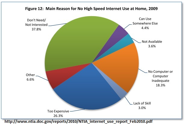 NTIA(2010) report